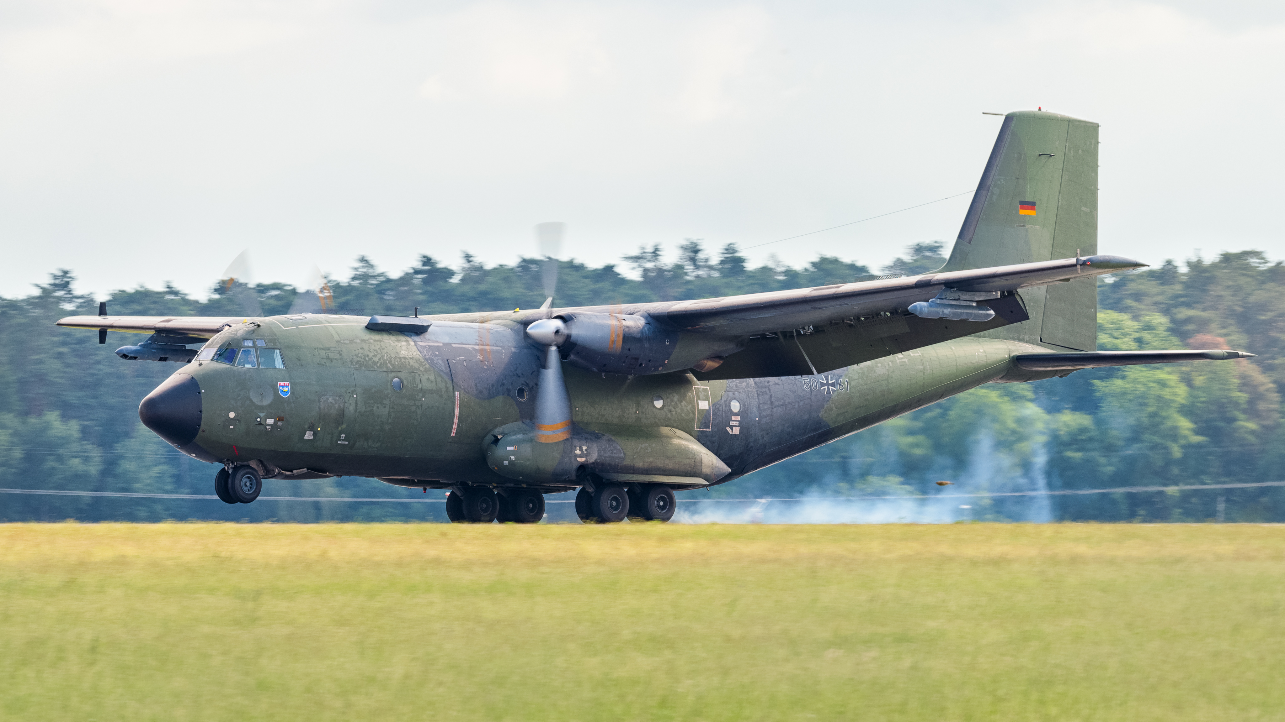 German Air Force LTG 63 Transall C-160D (reg. 50+61, cn D-83) at ILA Berlin Air Show 2016.